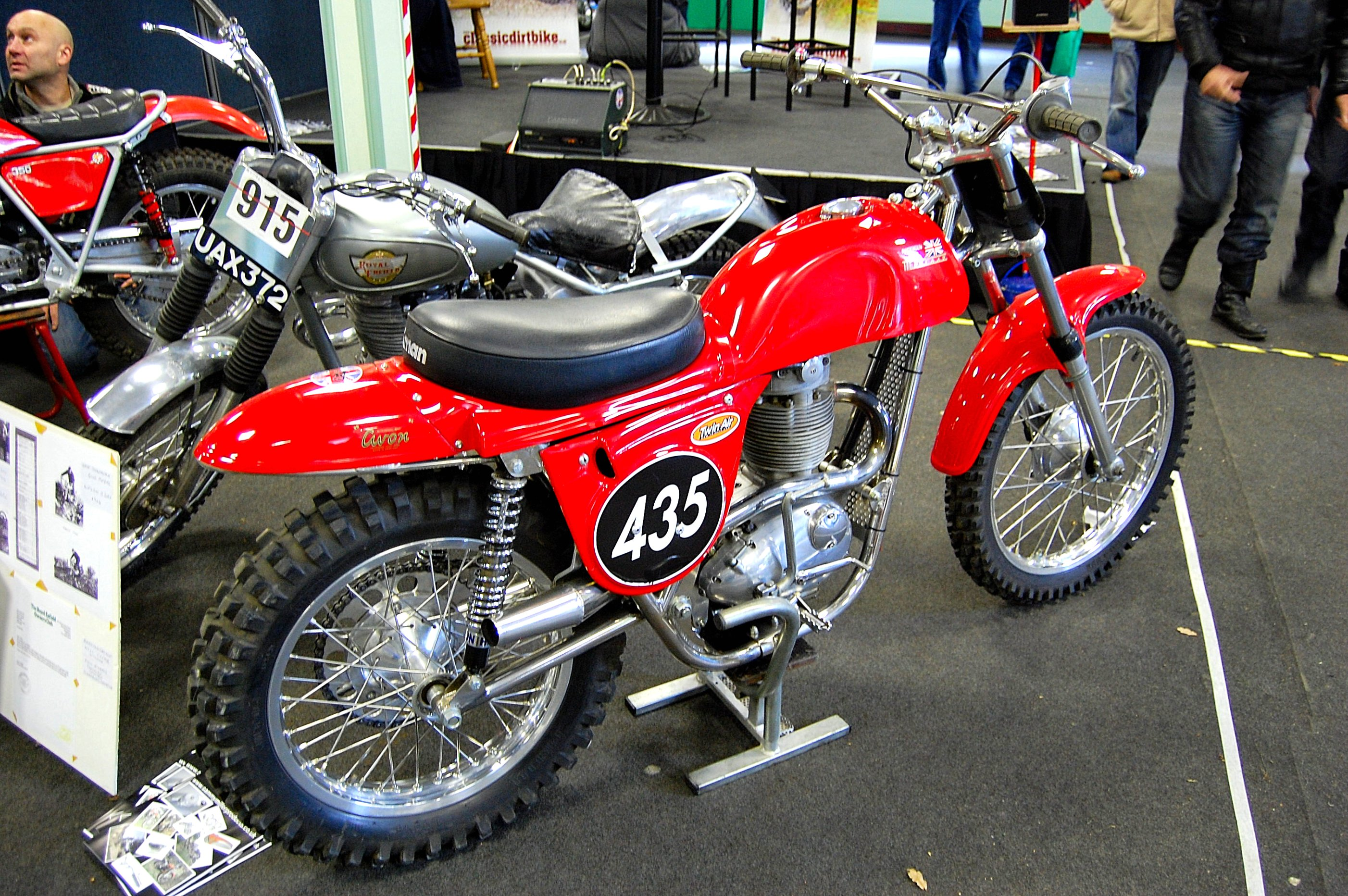 Métisse Motorcycles is a motorcycle manufacturer based in Carswell near Faringdon, Oxfordshire, England. It has produced motorcycle frame kits for British and American bike engines for over 40 years. Originally started by the Rickman brothers to offer lightweight, strong frames and rolling chassis for competitive motocross use. Métisse are manufacturing a limited edition of 300 complete motorcycles, to be called the Steve McQueen Métisse Desert Racer, which are replicas of a motorcycle raced by actor Steve McQueen in 1966 and 1967.[1][2] McQueen's bike, which used a Métisse frame, was built by the actor and his friend, stuntman Bud Ekins.